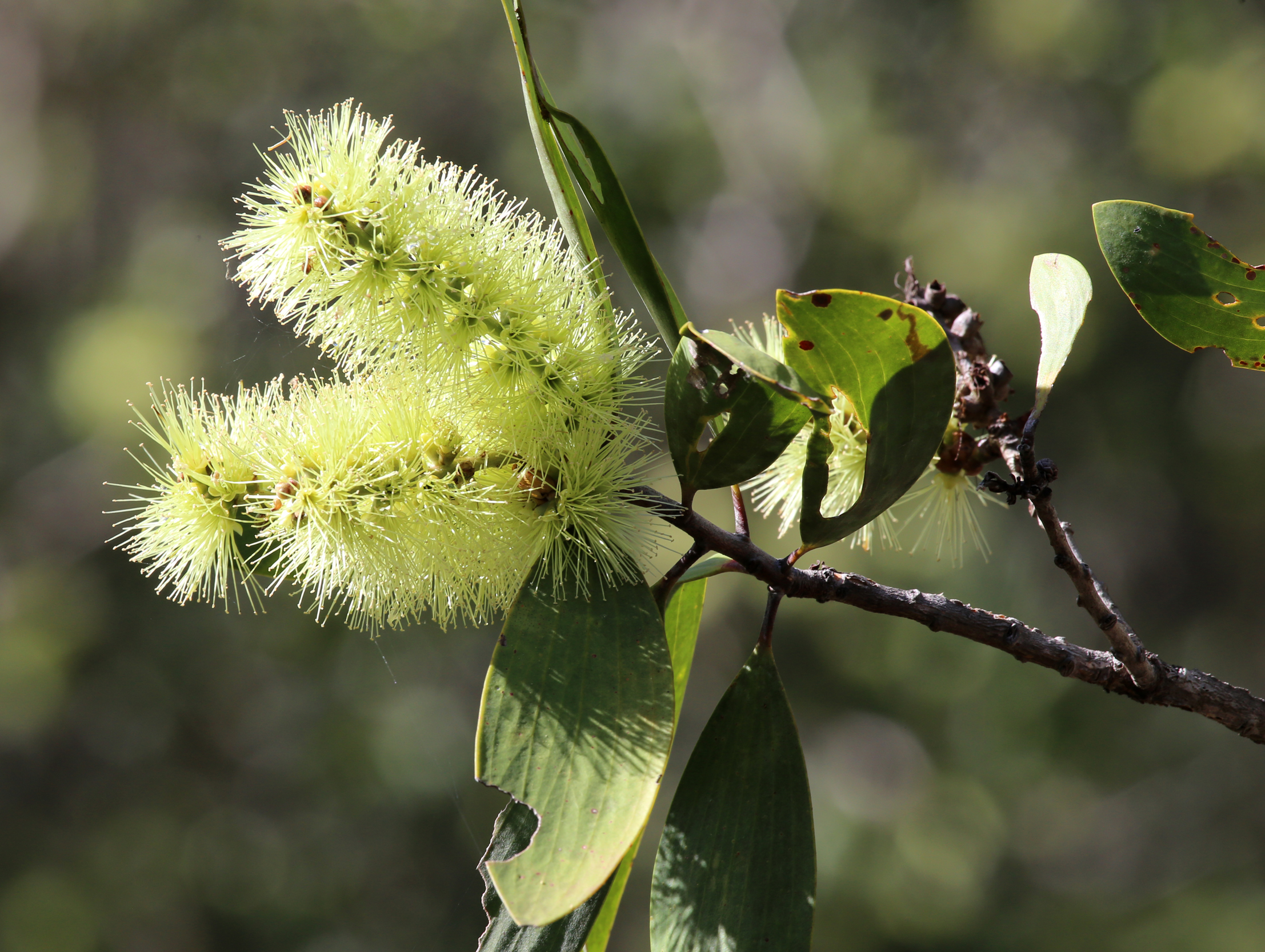 Broad-leaved paperbark (Melaleuca viridiflora) at Davies Creek national park, Queensland, Australia.